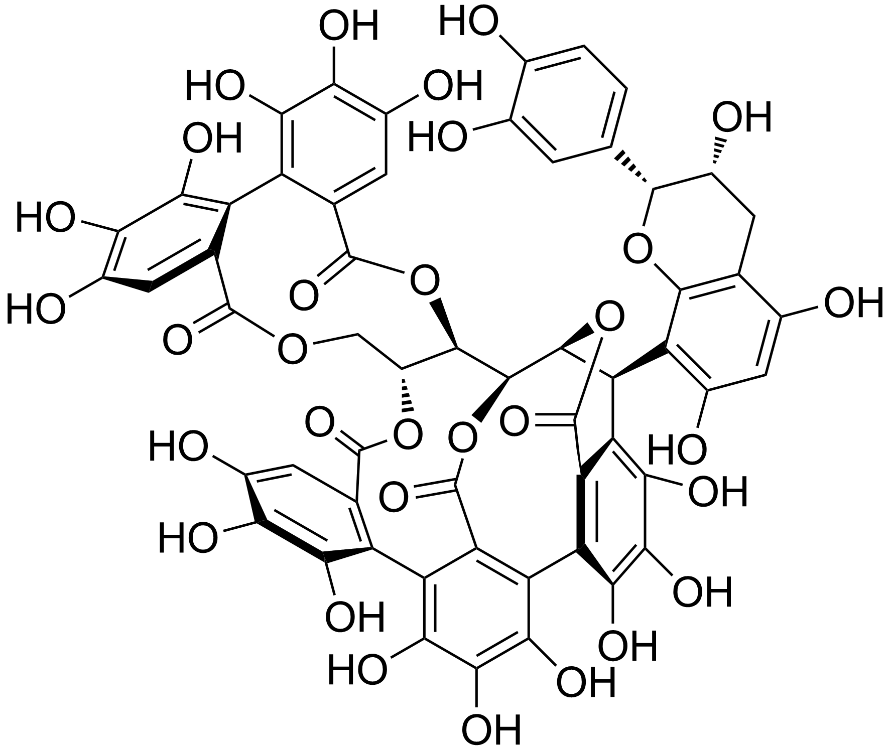 Chemical structure of epicutissimin A